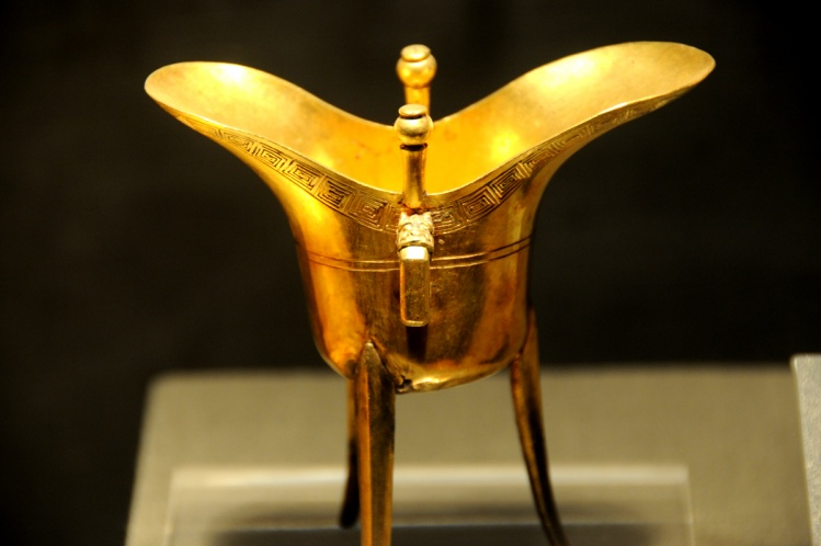 A gold chüeh (爵, pinyin: jué; a shape of Chinese ritual object, a tripod vessel or goblet used to serve or warm wine) found in the tomb of Prince Chuang of Liang (梁莊王, 1411-1441). Ming dynasty.